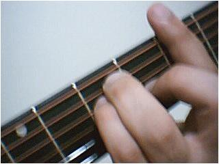 Picture taken from taking barre chord on guitar.